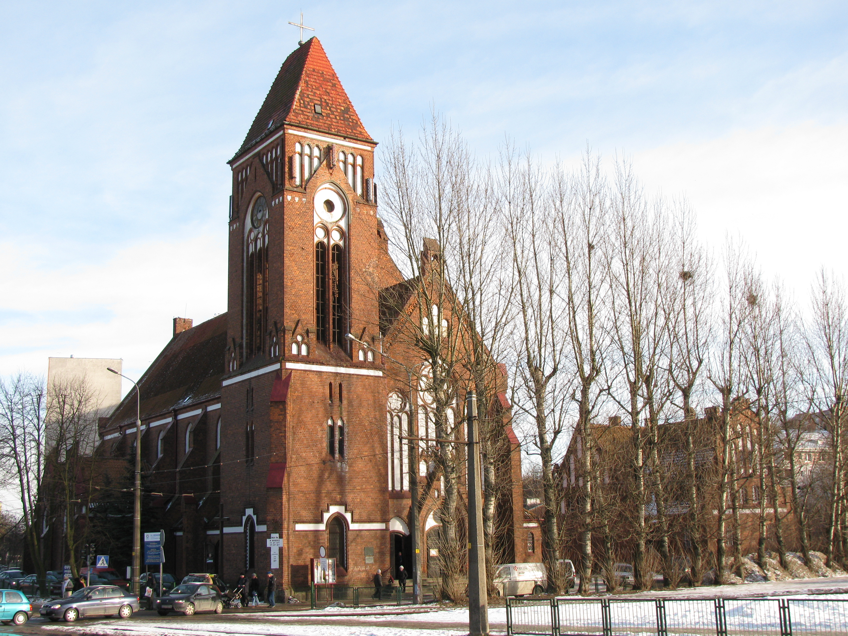 St. Francis of Assisi Church in Gdańsk, from 1906.